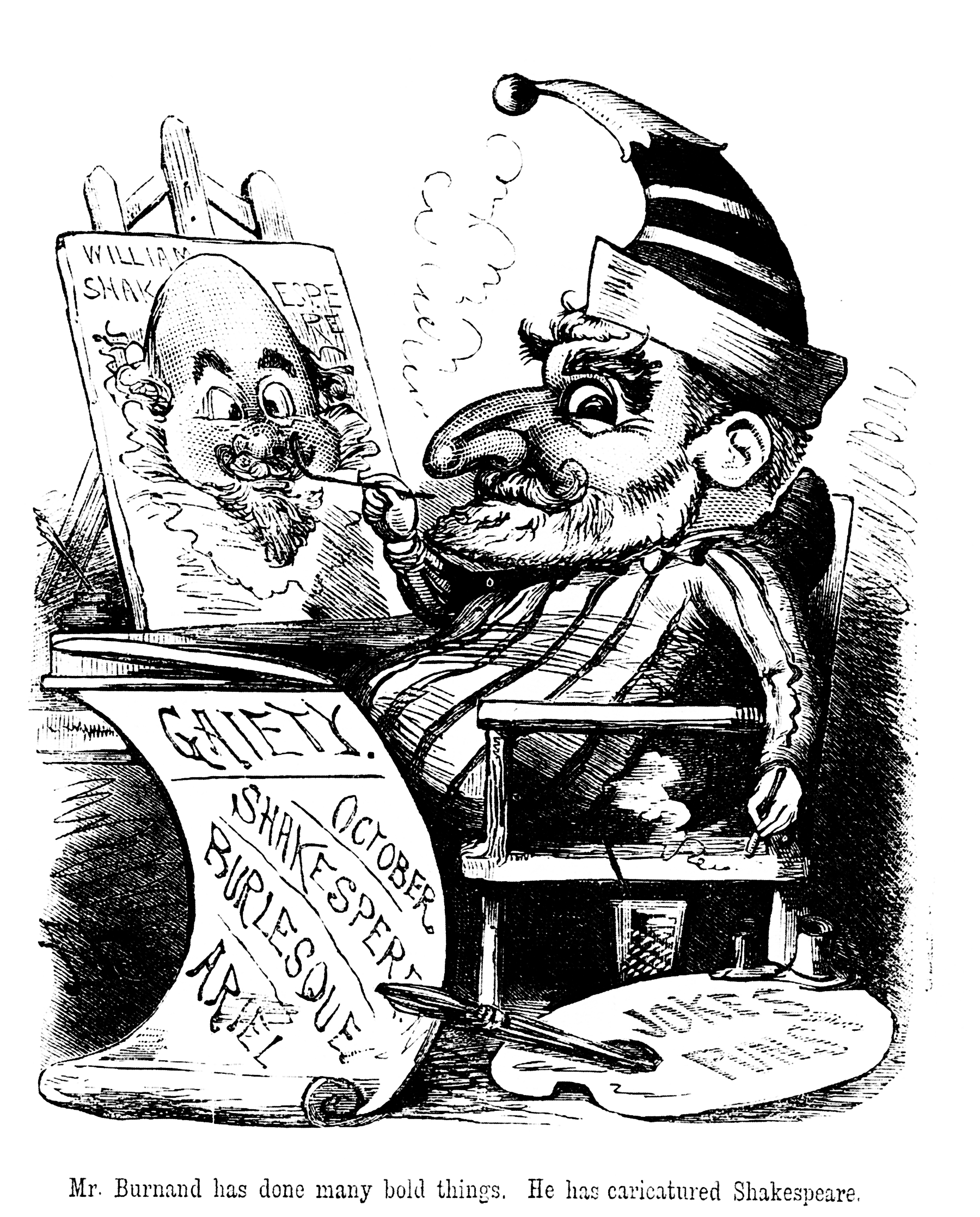 F. C. Burnand was a prolific playwright, though of rather variable quality, and editor of the illustrated magazine Punch. This cartoon draws Burnand as Punch's mascot, Mr. Punch.